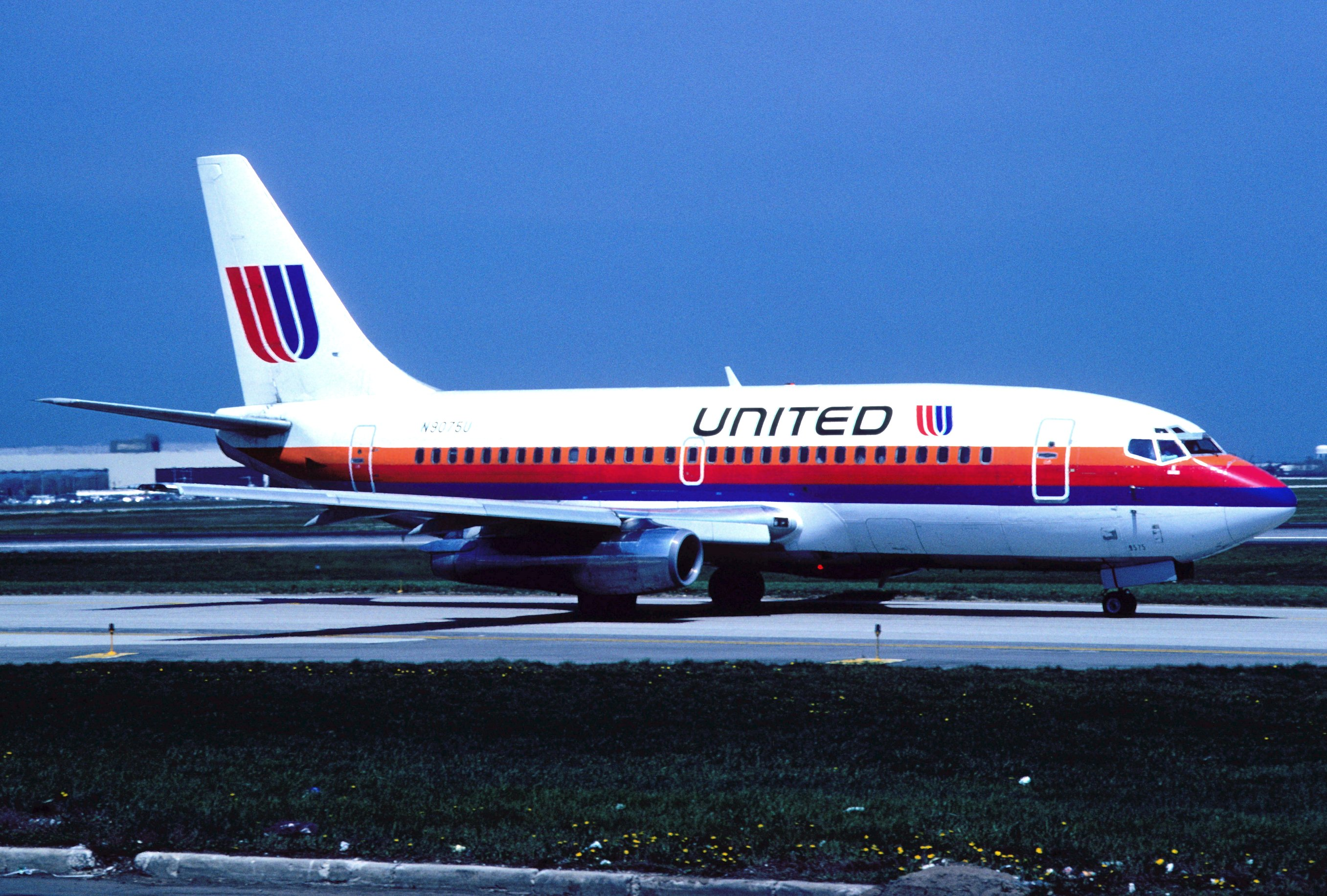 United Airlines Boeing 737-222; N9075U, April 1990/ CRO